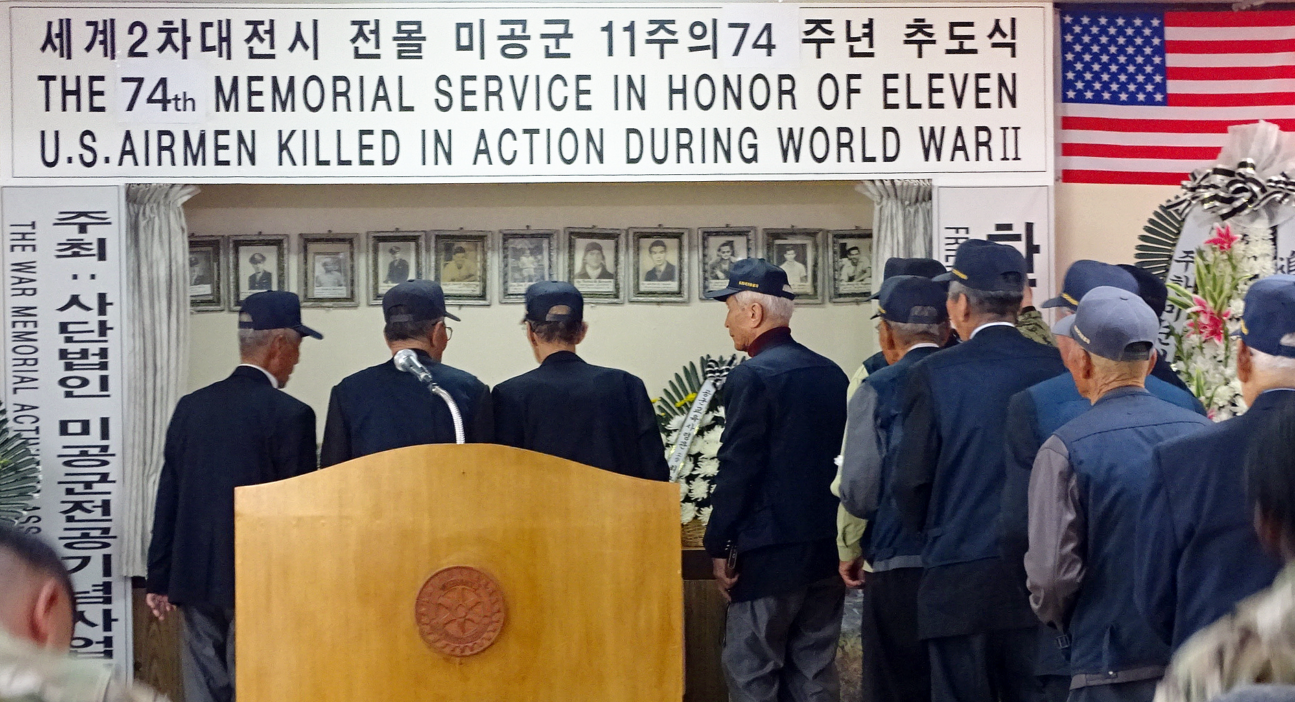 Memorial Hall for the U.S. Airmen Killed In Action During World War II is dedicated to the 11 U.S. Airmen who were killed when their B24 crashed into the mountain peak on Namhae returning from a bombing mission early in the morning of August 8, 1945, after being damaged by Japanese artillery, and to Kim Deok-hyeong, who single-handedly buried the 11 men, used his own funds to build a monument at the crash site, and establish the Memorial Hall where ceremonies are still held each year for the Airmen.